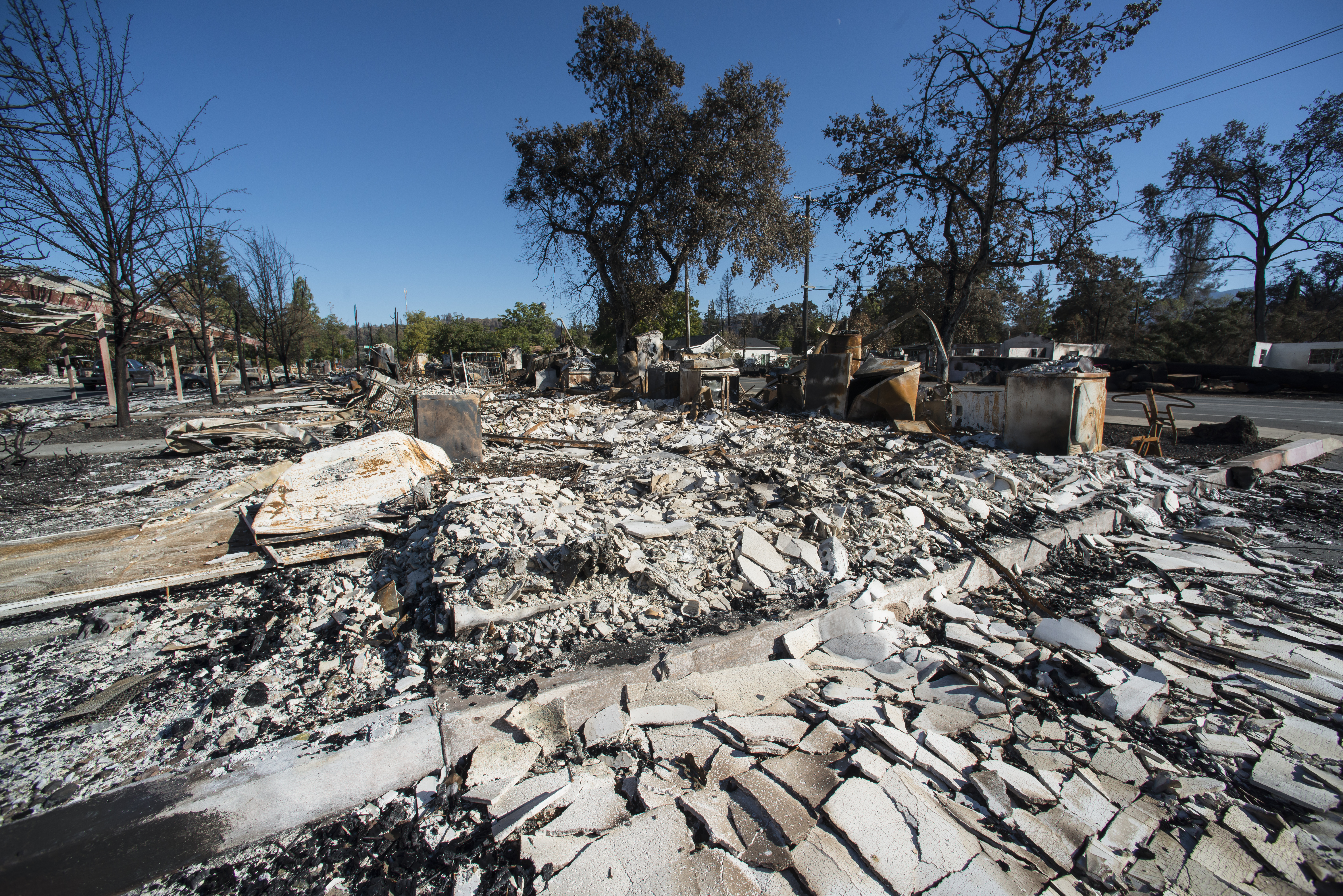 Damage to an apartment complex. State Farm is helping those impacted by the #ValleyFire recover. If you've been impacted be sure to call your agent or 1-800-SFClaim to file a claim.